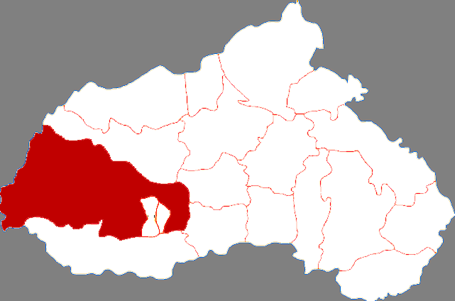 Location of Xingtai county in Xingtai City, China